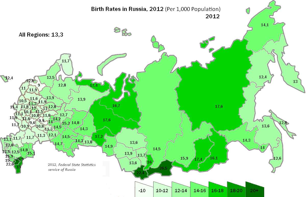 Birth rate by regions in 2012.